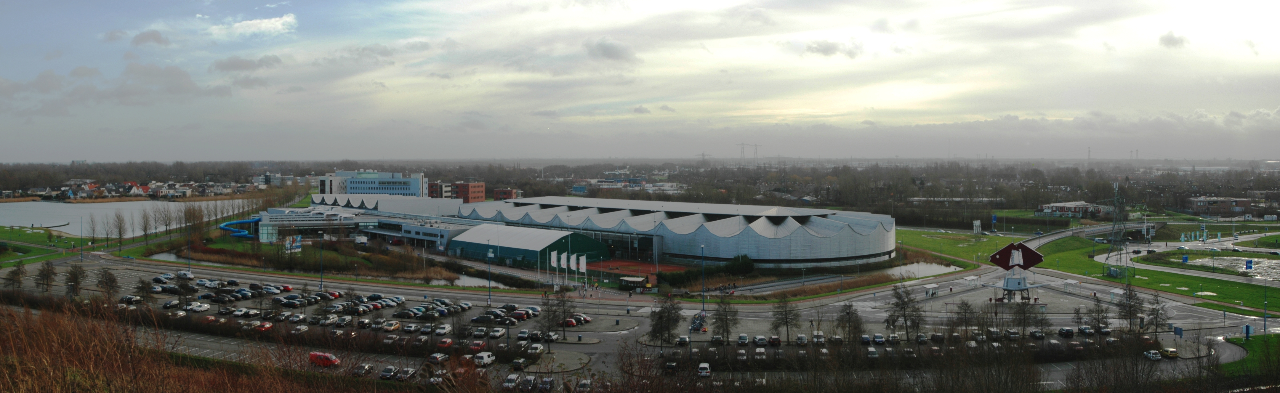 Sportcentrum Kardinge. - Kardingerplein 1, 9735 AA Groningen, Hollandia